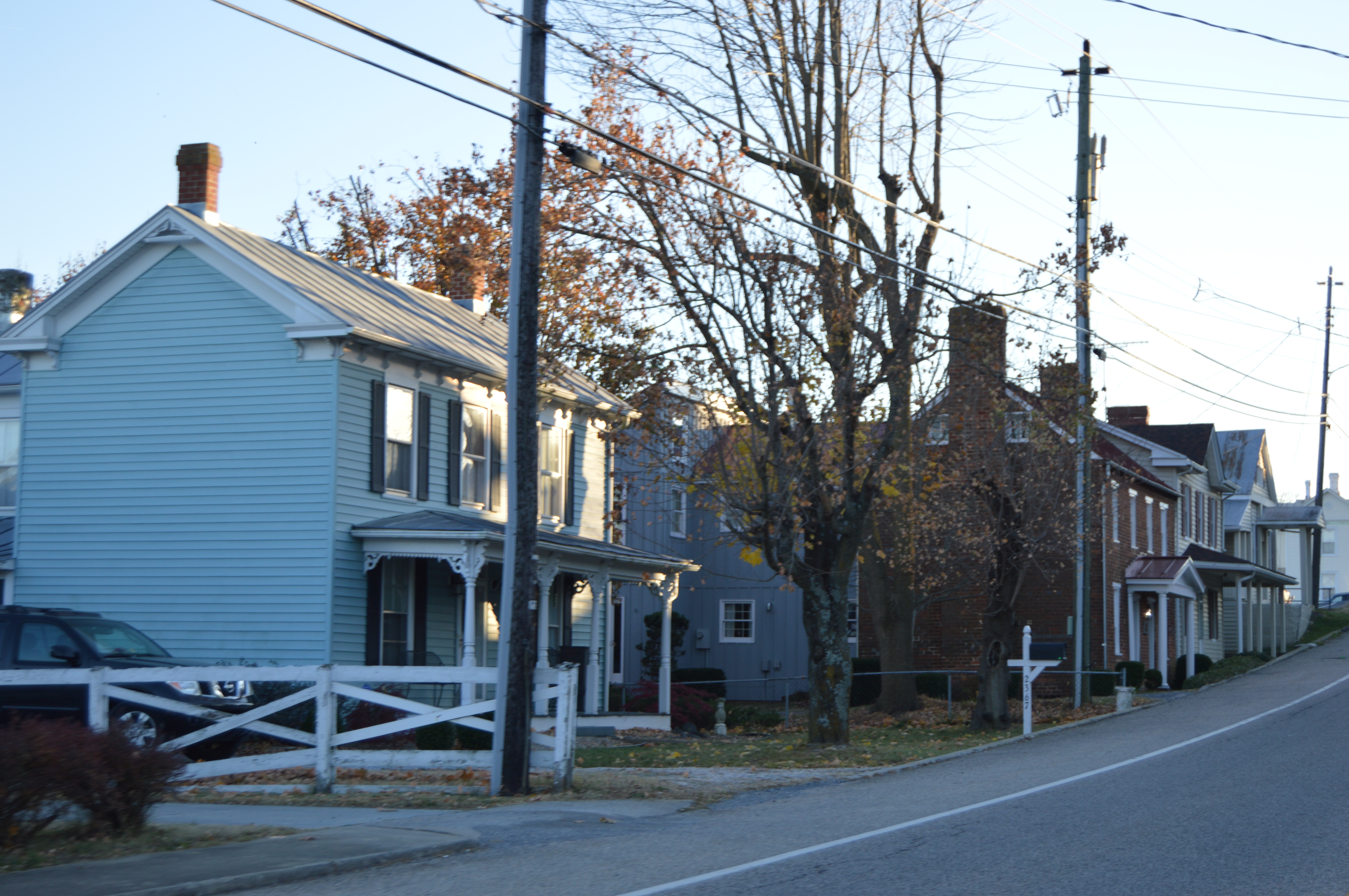 Houses on U.S. Route 11 south of Marion Street in central Mount Sidney, Virginia, United States. This section of the community is part of the Mt. Sidney Historic District, a historic district thatis listed on the National Register of Historic Places.